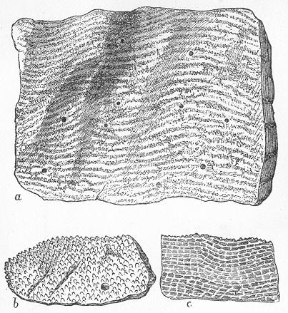 Picture of Stromatoporoids fossil Fig. 79.—a, Part of the under surface of Stromatopora tuberculata, showing the wrinkled basement membrane and the openings of water-canals, of the natural size; b, Portion of the upper surface of the same, enlarged; c, Vertical section of a fragment, magnified to show the internal structure. Corniferous Limestone, Canada. (Original.)